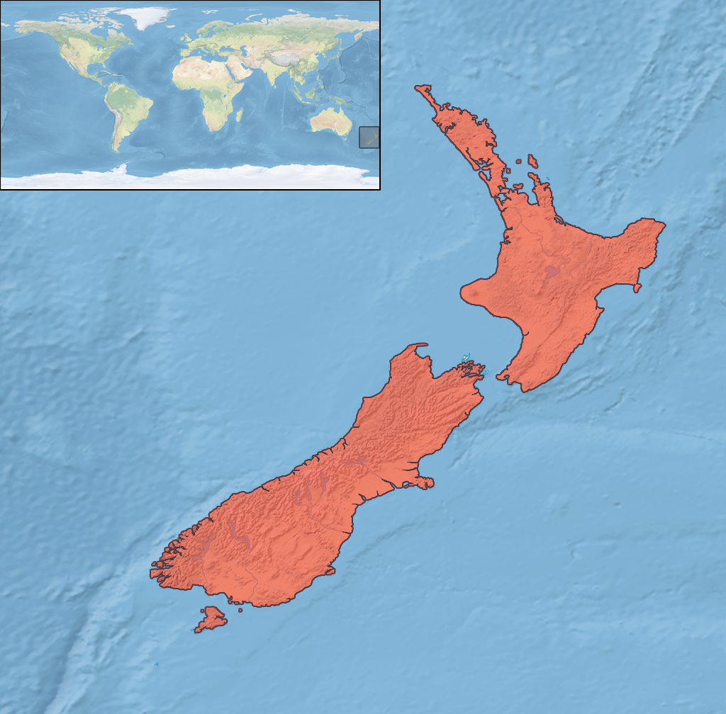 Distribution map of Aythya novaeseelandiae (New Zealand Scaup) (red) Distribution data from BirdLife International 2009. Aythya novaeseelandiae. In: IUCN 2011. IUCN Red List of Threatened Species. Version 2011.2. . Downloaded on 12 February 2012. Map from Natural Earth